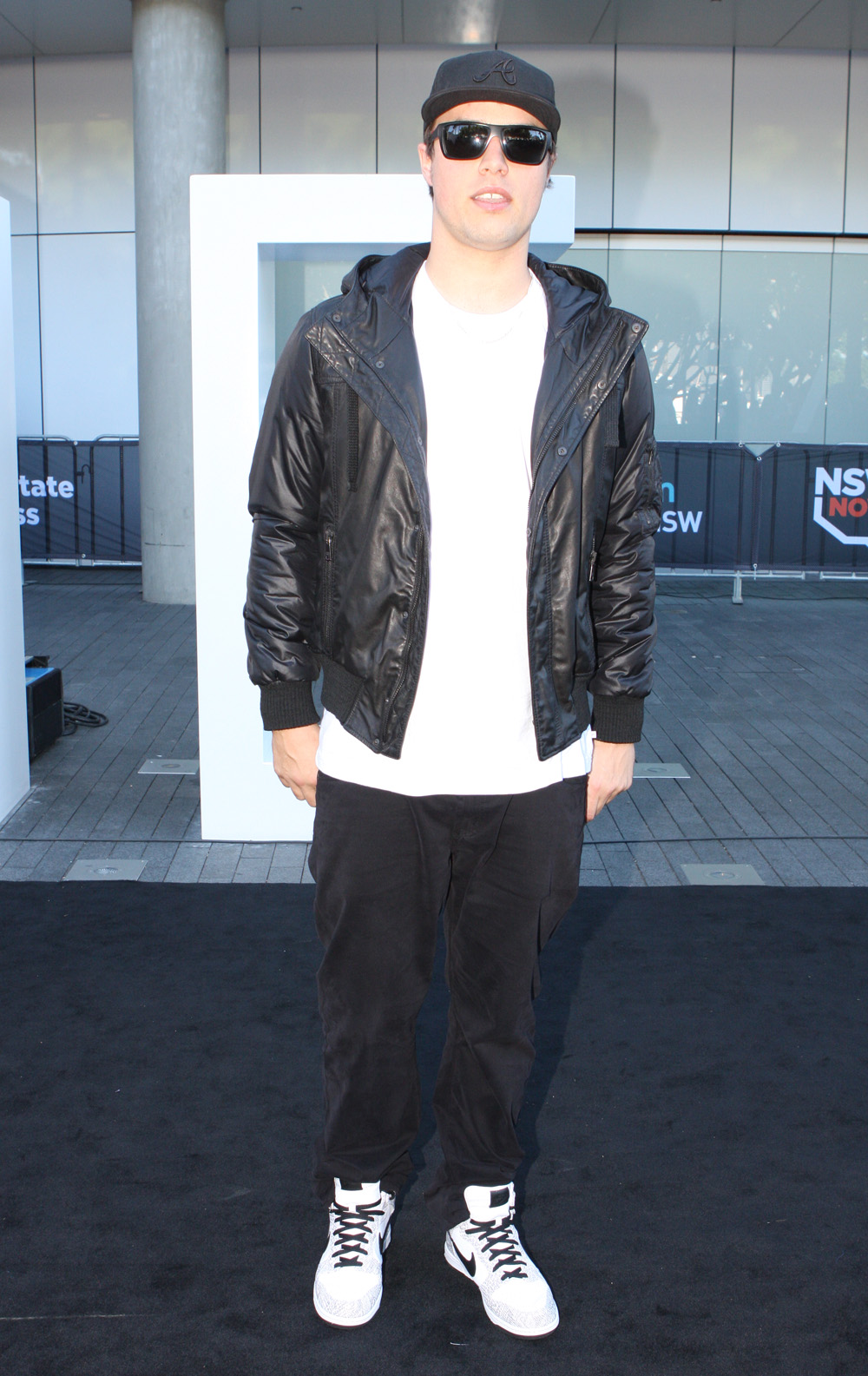 Illy (rapper) at Aria Awards 2013 in Sydney Australia